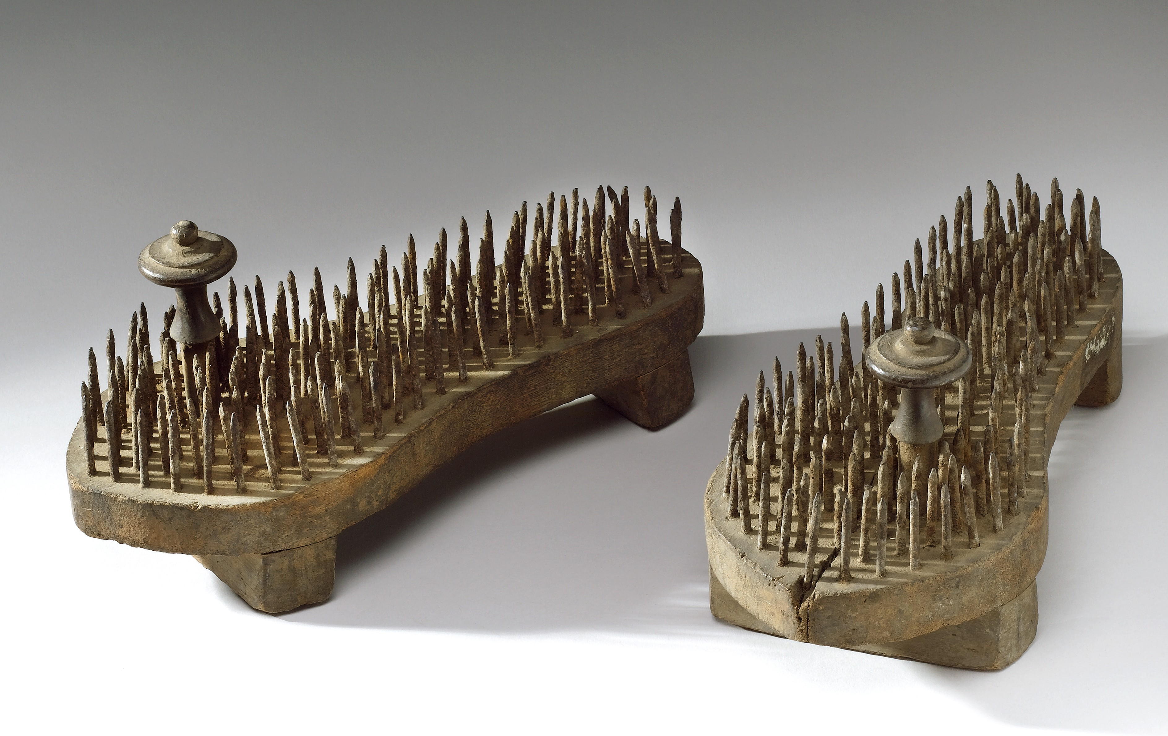 Pair of fakir's sandals, with iron spikes through soles and wooden toe pegs, Indian, 1871-1920. Front three quarter view. Wellcome Images